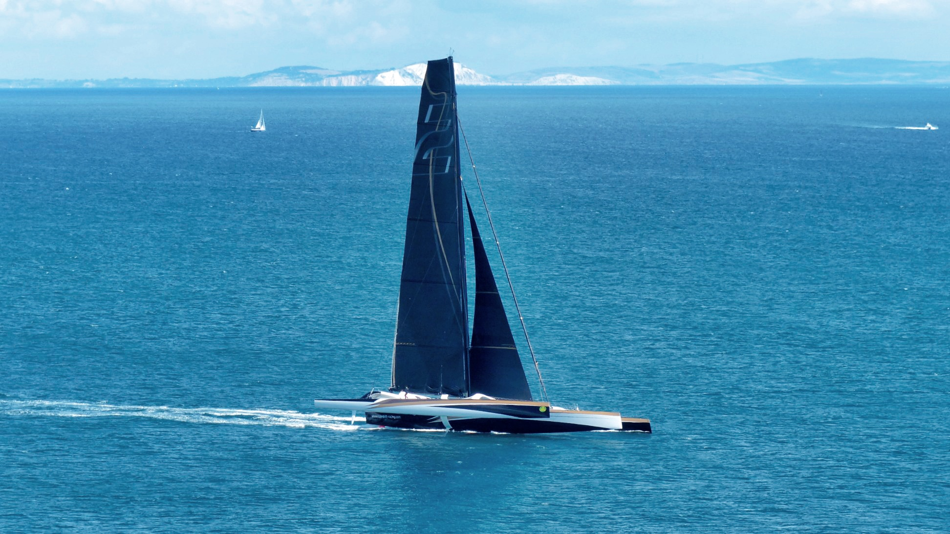 Taken from Durlson Head, Swanage a few hours after the race started at Cowes on the Isle of Wight.